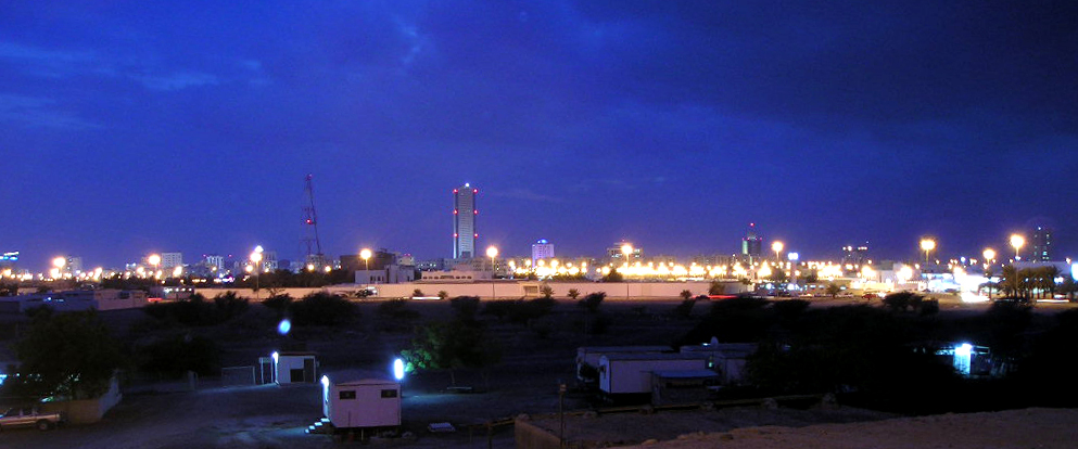 Fujairah, U.A.E.